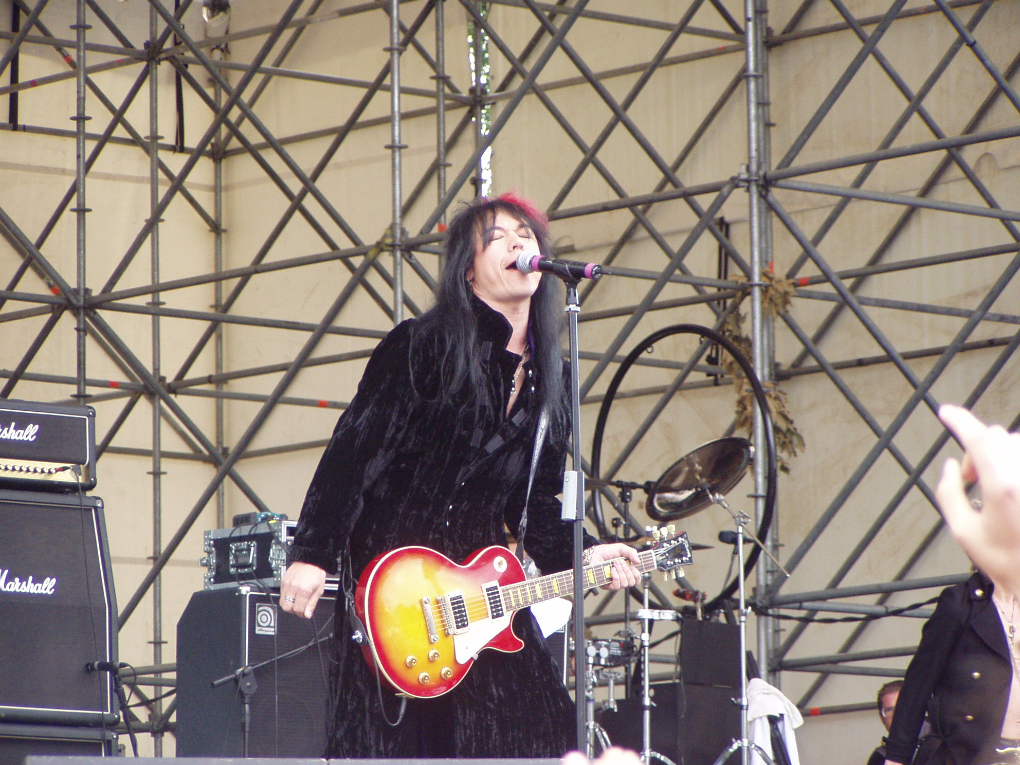 I Tigertailz al Gods of Metal 2007